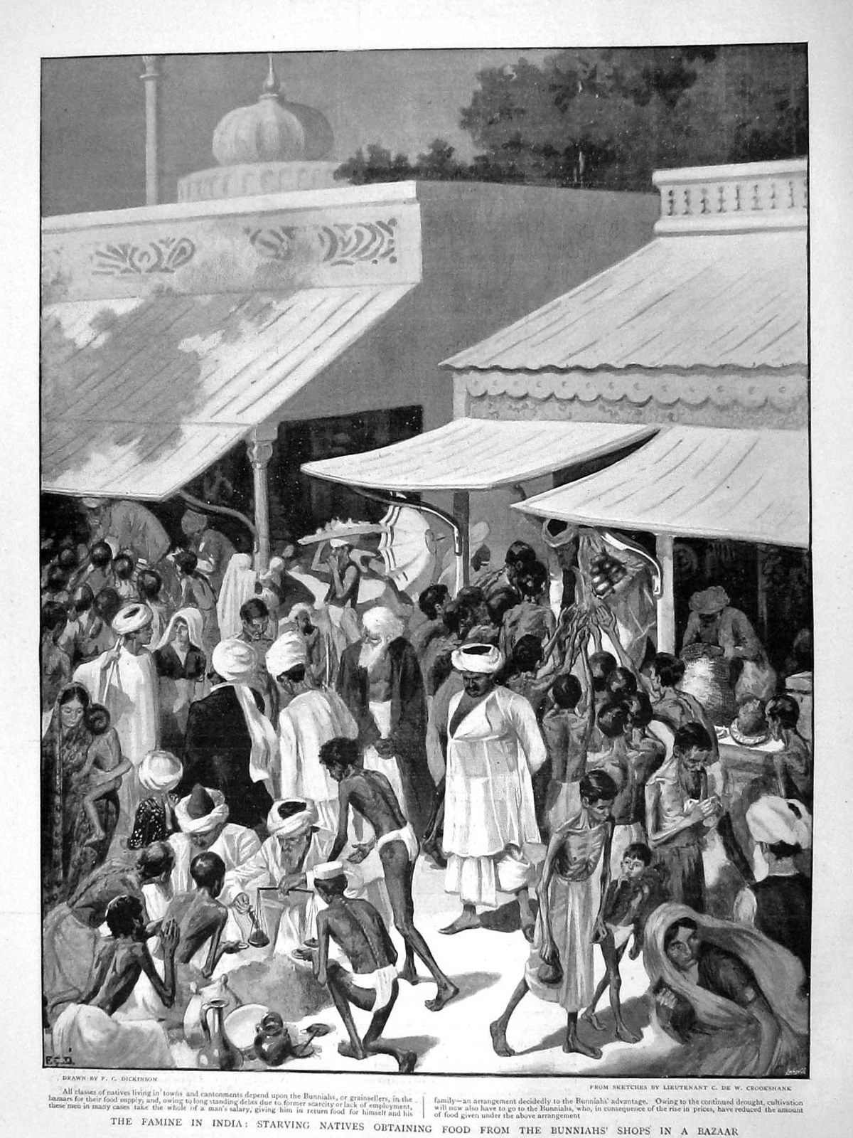 Sketch from The Graphic showing "starving natives buying grain from the 'Bunniah' (merchant's) shop